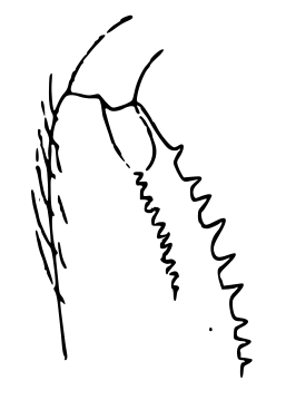 Orsonwelles torosus, female, chelicera